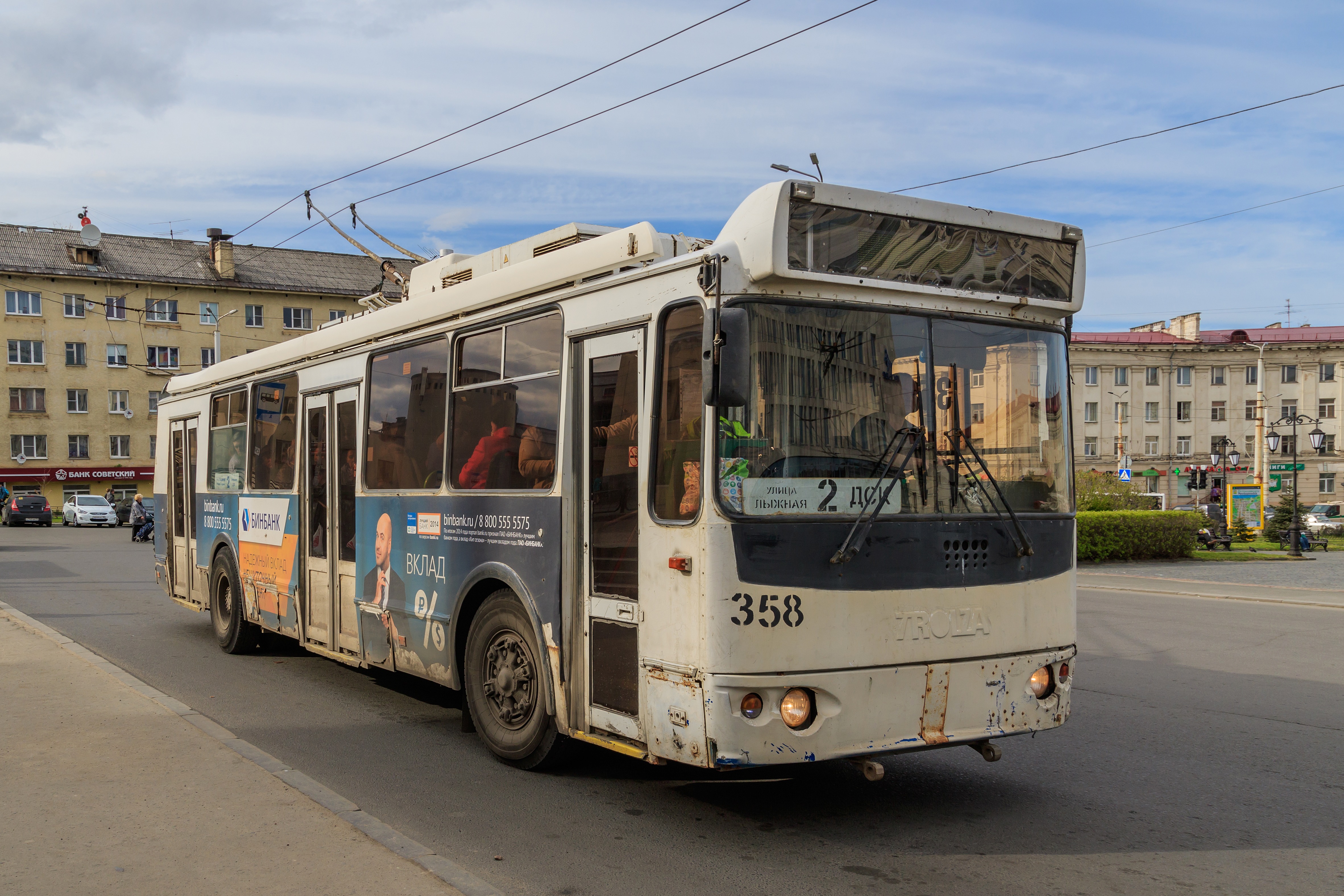 Trolley at the railway station square in Petrozavodsk, Republic of Karelia (Russia).